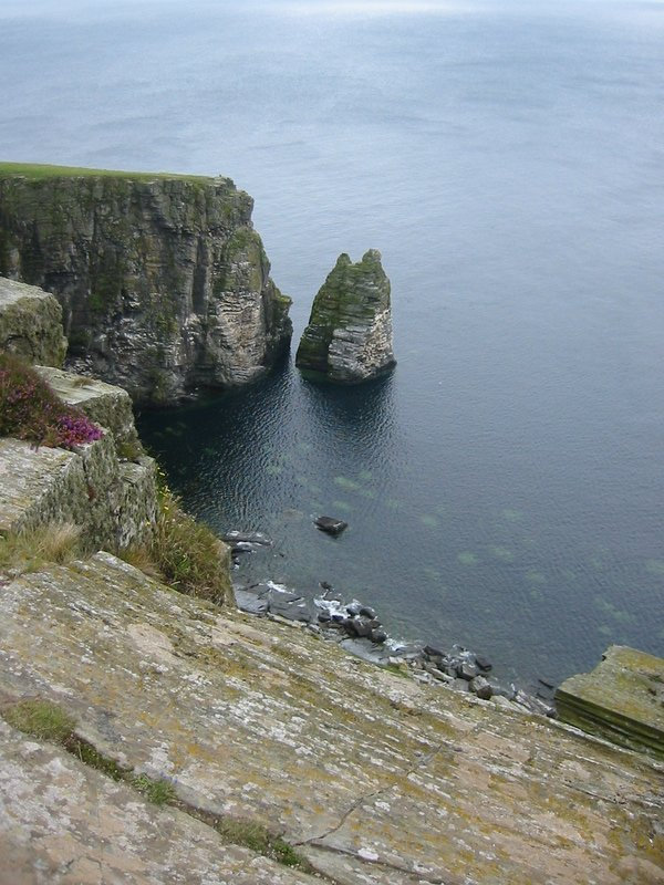 Stack at cliffs near Port Erin, Isle of Man